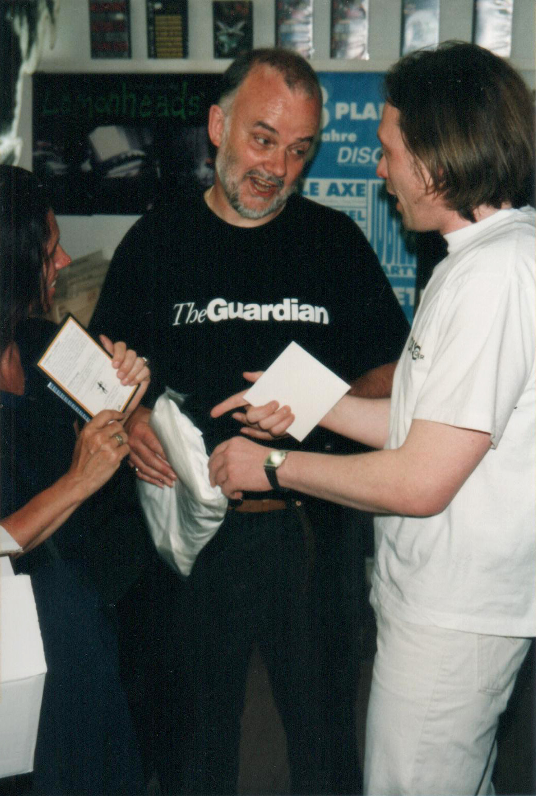 Peel in a record shop in Bochum, Germany